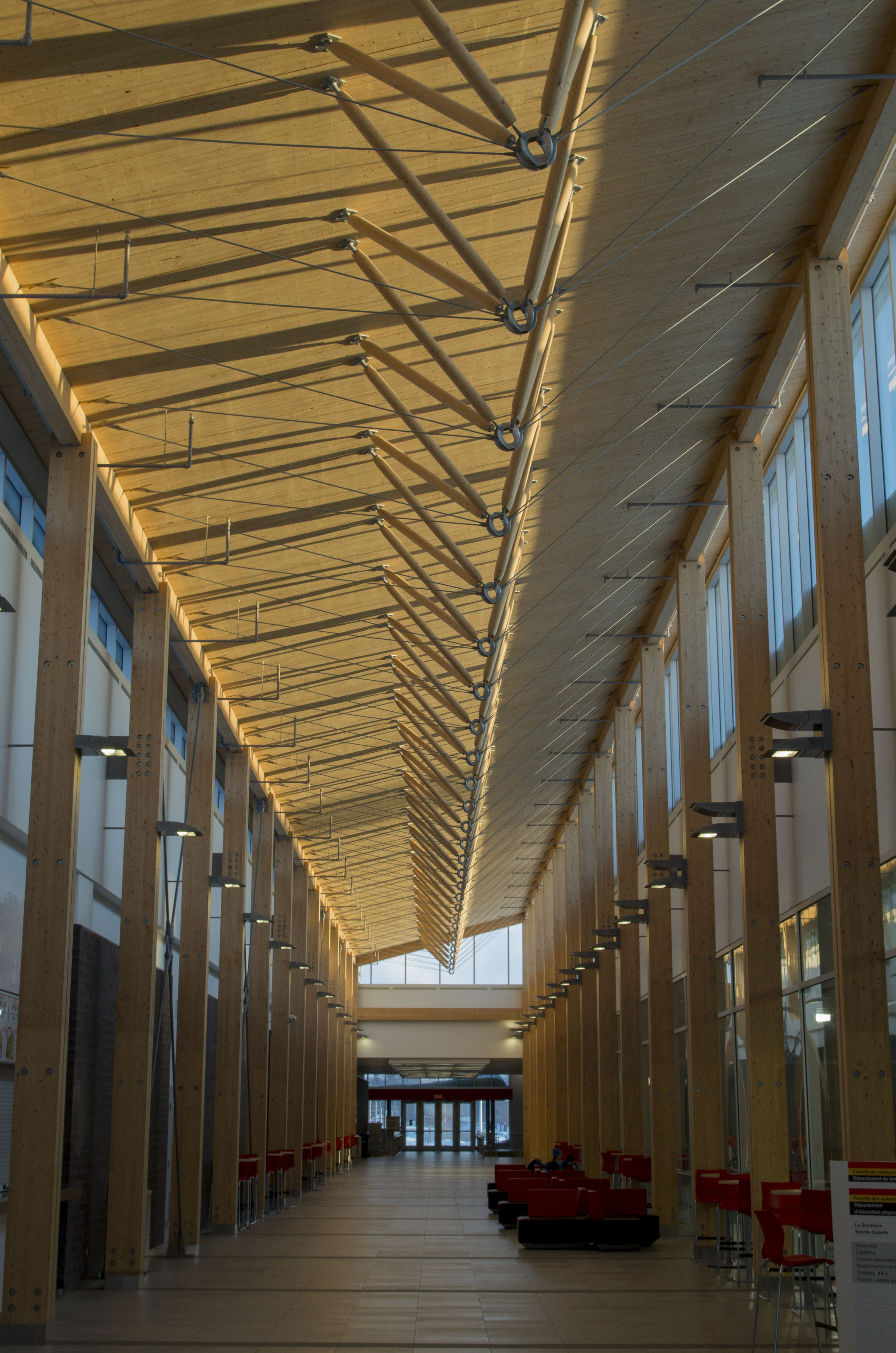 Wood structure of the central hall of the Pavillon de l'éducation physique et du sport of Laval University.